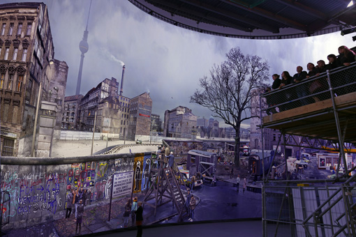 THE WALL with visitor platform, photo T.Schulze © asisi